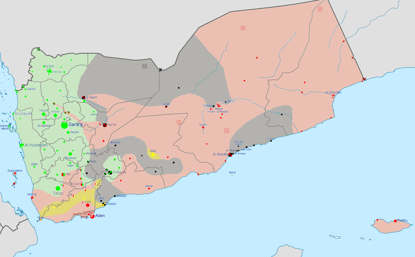 Red Under control of the Central Government Lime Under control of the Houthis Black Under control of Al-Qaeda affiliated groups Yellow Under control of the South Yemen Movement